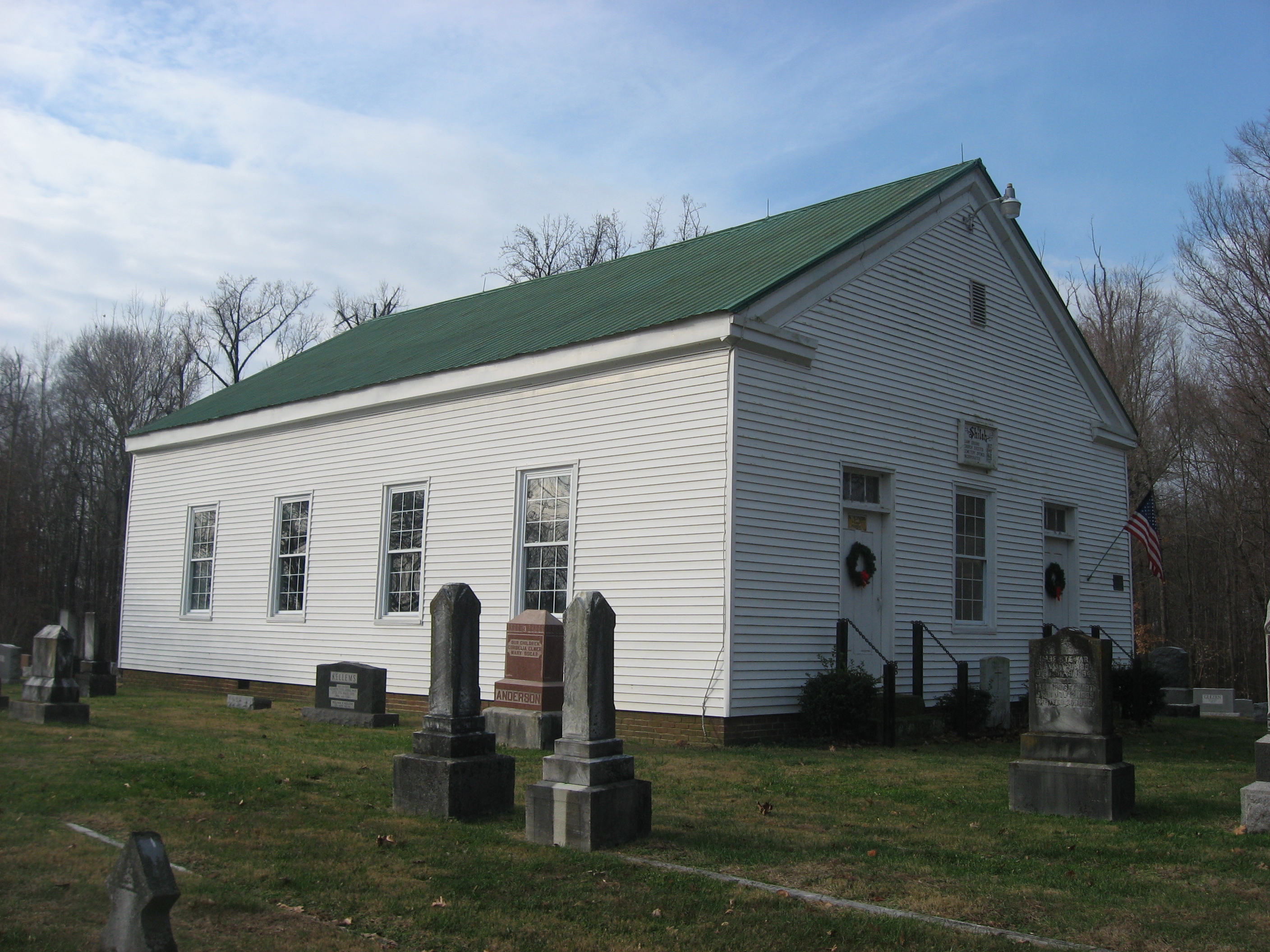 Front and eastern side of the Shiloh Presbyterian Church, located southeast of Ireland on Road 150N in far eastern Madison Township, Dubois County, Indiana, United States. Built in 1849, the church and cemetery are listed on the National Register of Historic Places.